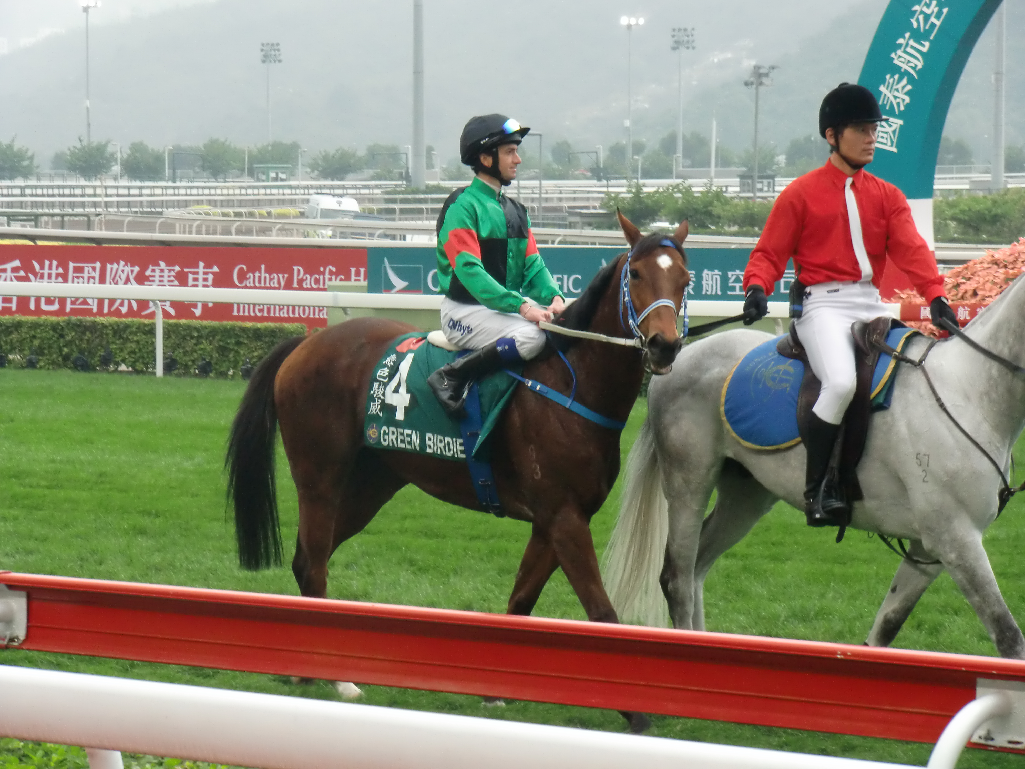 Green Birdie 中文（香港）: 綠色駿威